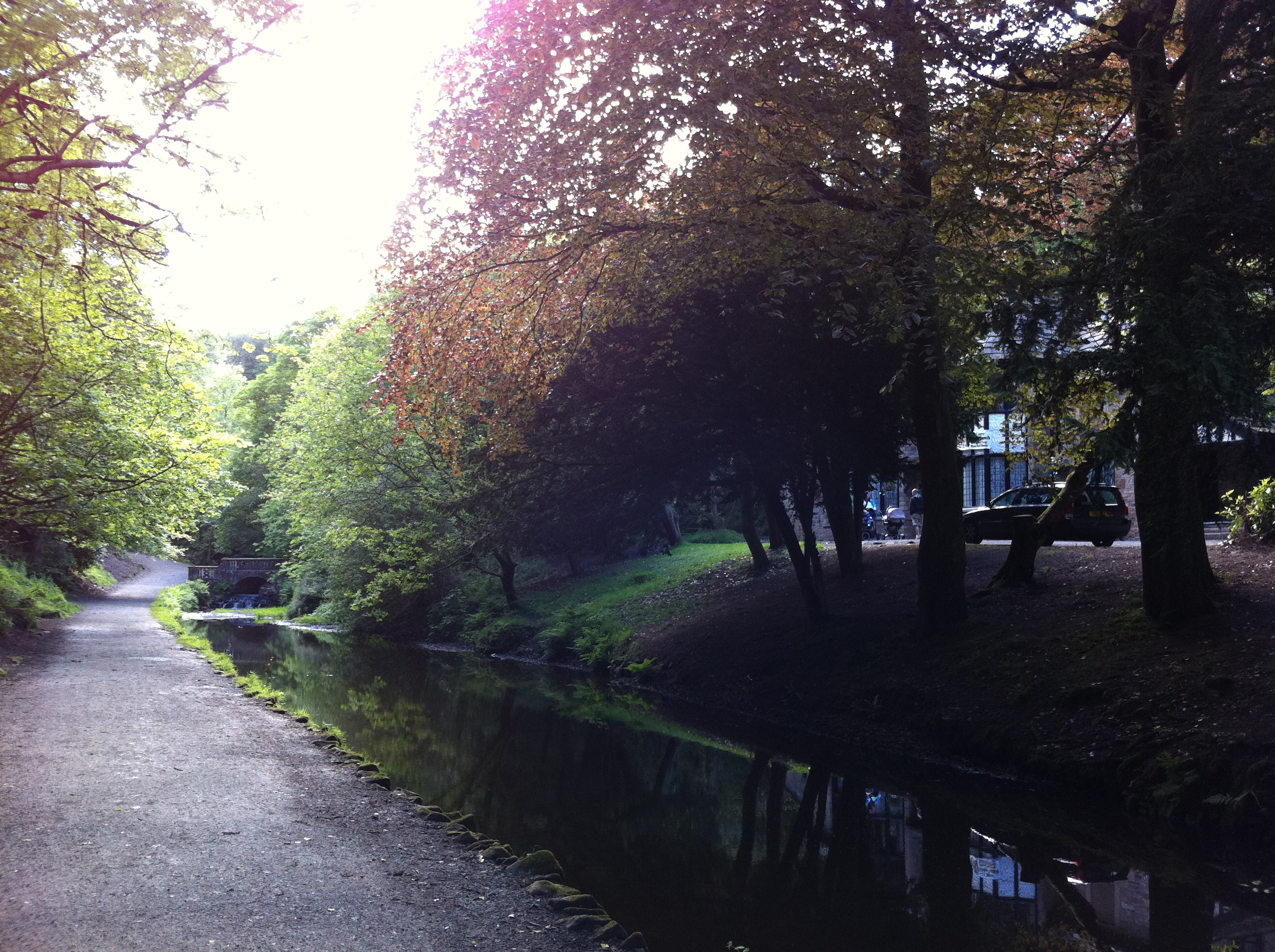 Sunnyhurst Woods